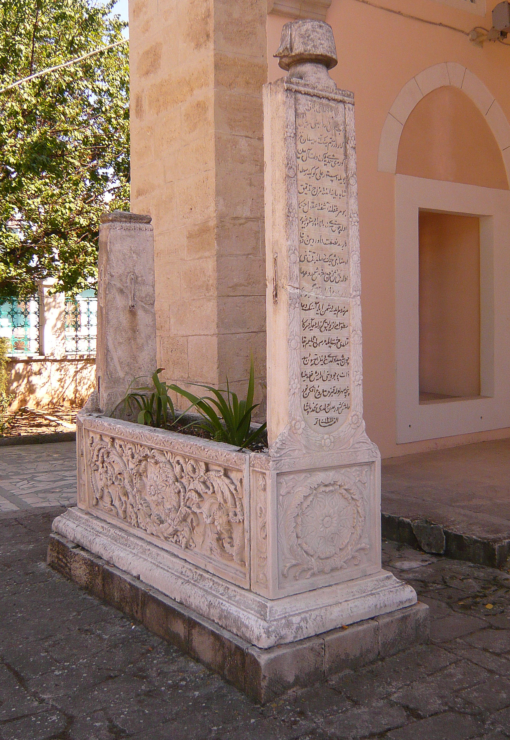 Juma-Juma Mosques in Eupatoria graves